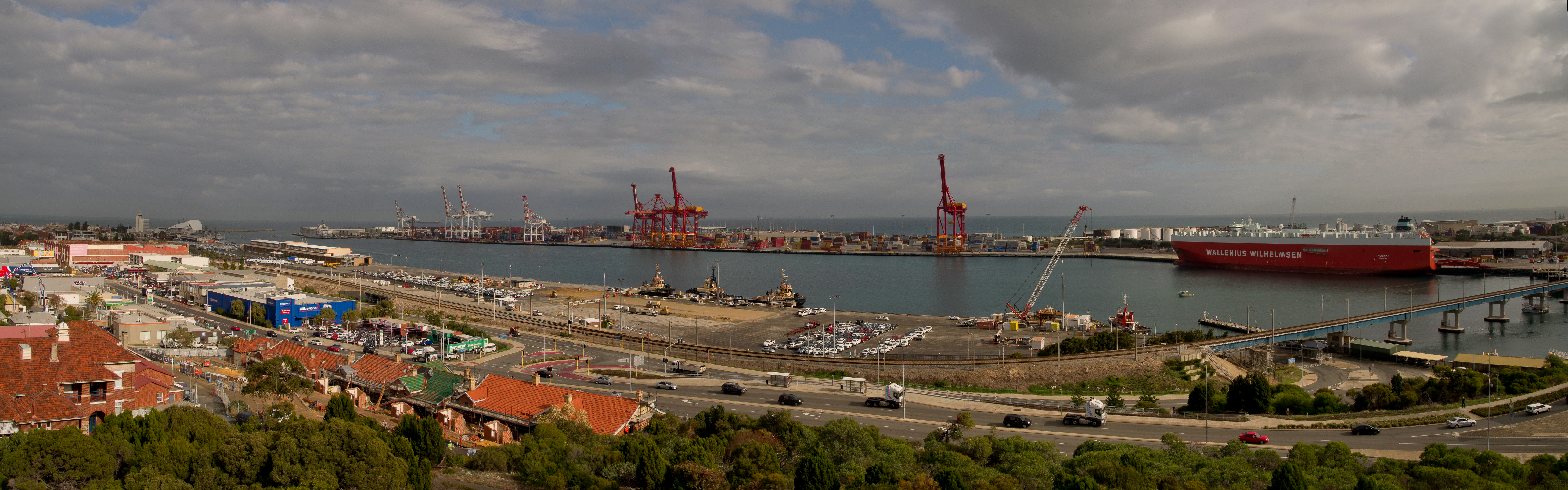 Panorama from the Cantonment Hill Signal Station roof